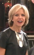 CBC Live event with Dwight Drummond and Heather Hiscox.